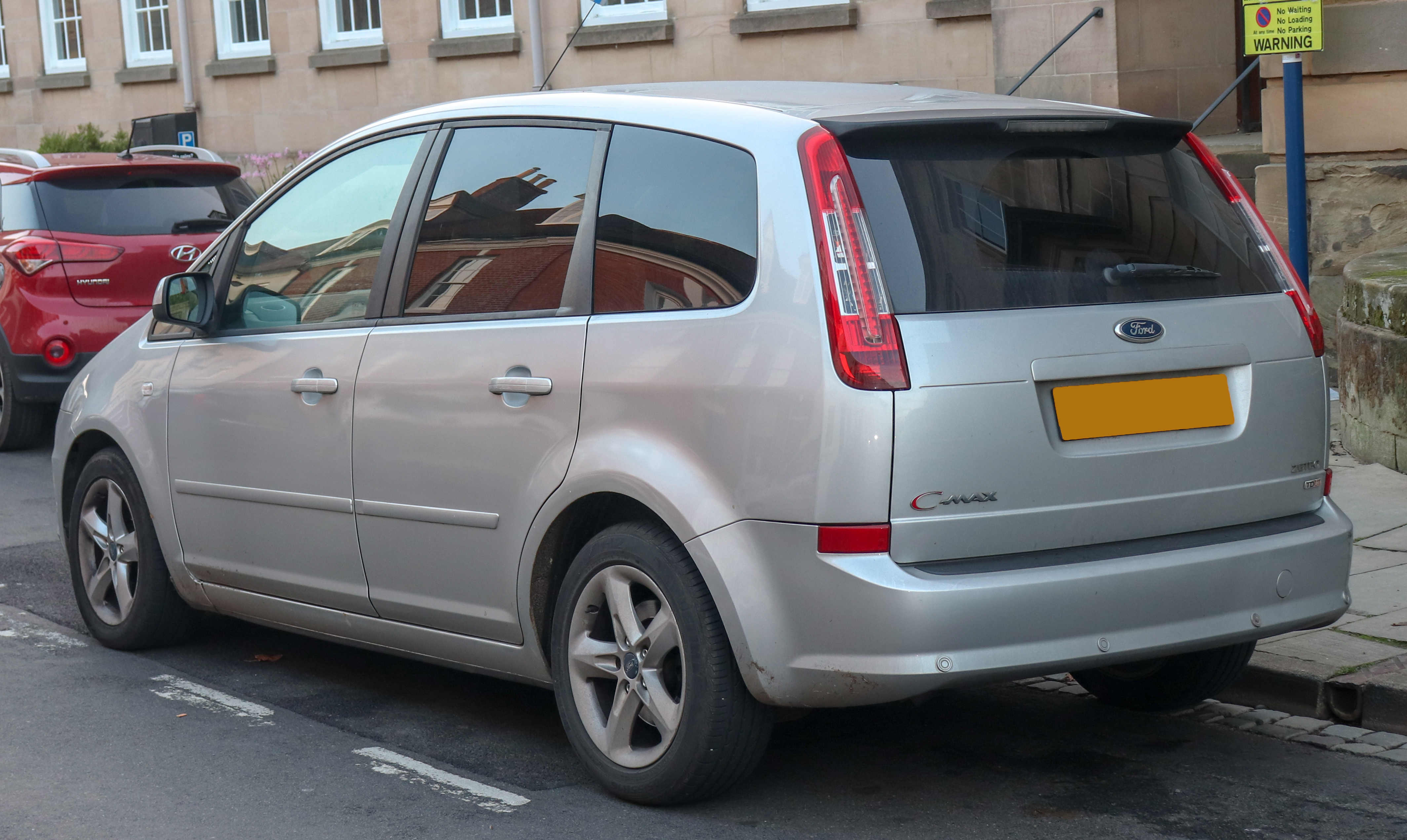 2010 Ford C-Max Zetec TD 115 1.8 Rear Taken in Warwick